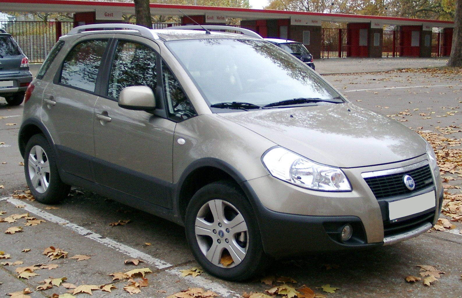 Fiat Sedici